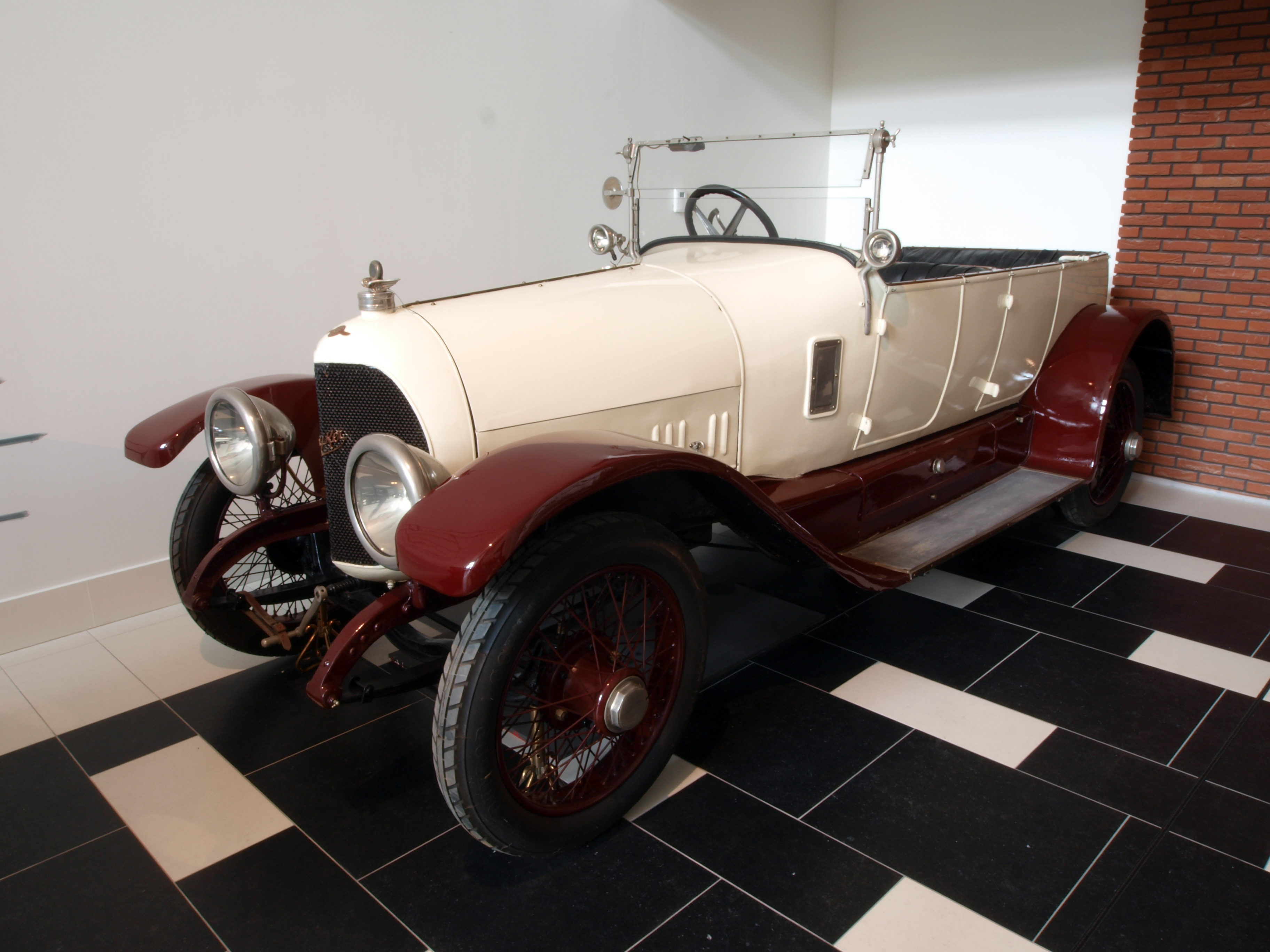 Photographed at the Louwman museum / Louwman Collection, The Netherlands.